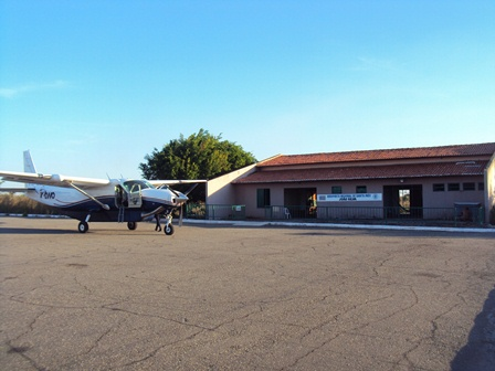 Cessna Grand Caravan